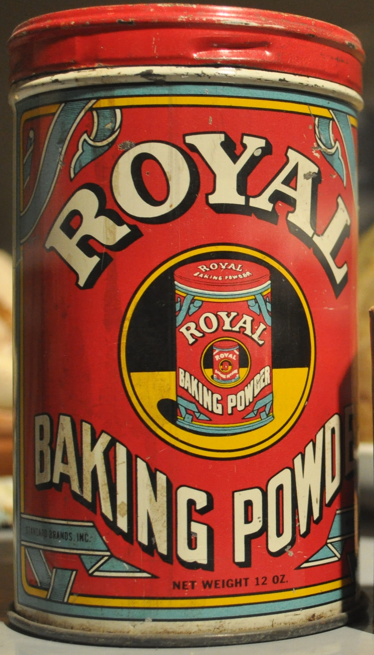 Royal Baking Powder, early to mid 20th century, photographed at Edmonds Historical Museum, Edmonds, Washington, USA.